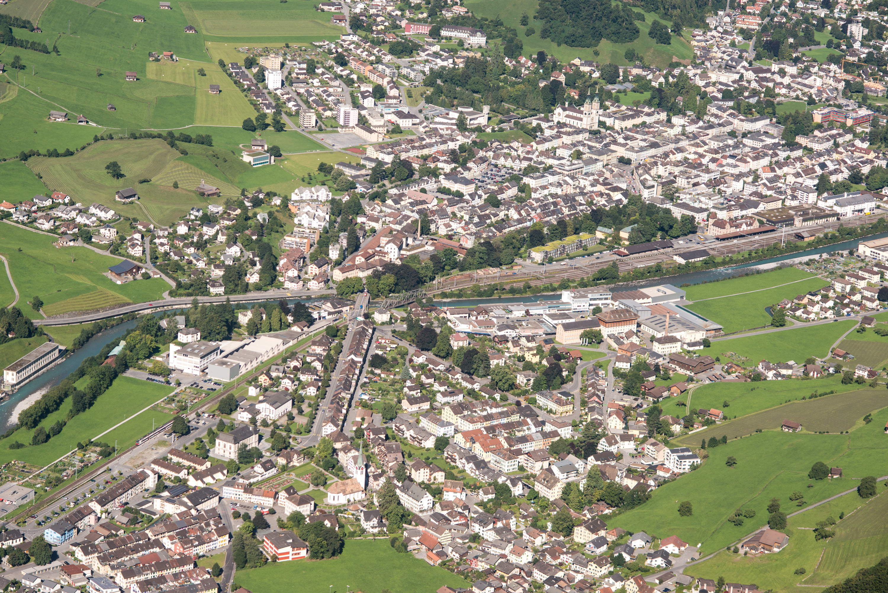 Photo Credits: Samuel Trümpy Photography